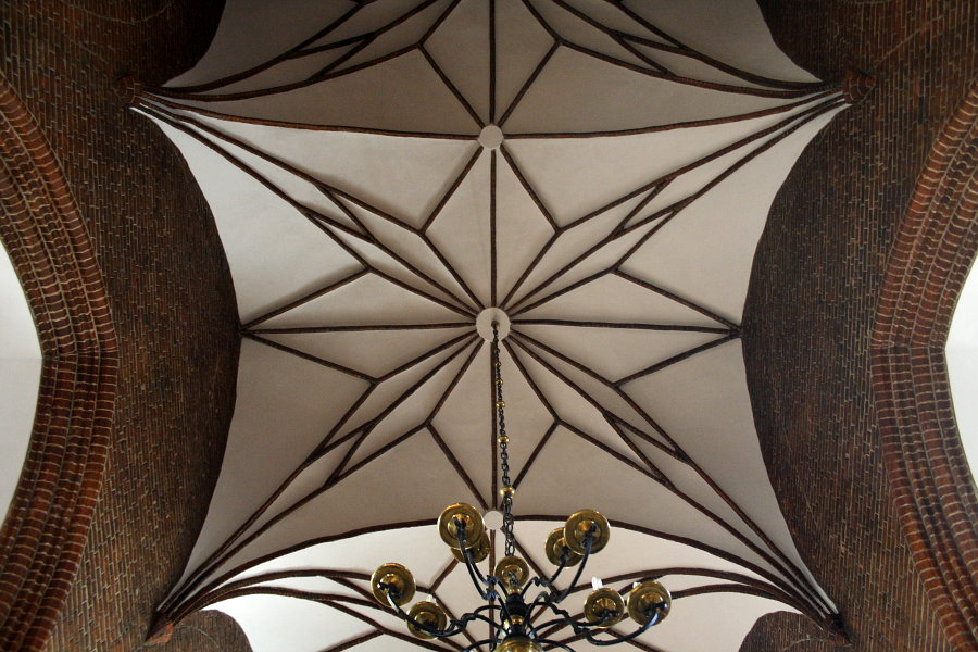 Grudziądz, church of St. Nicholas, vault in nave